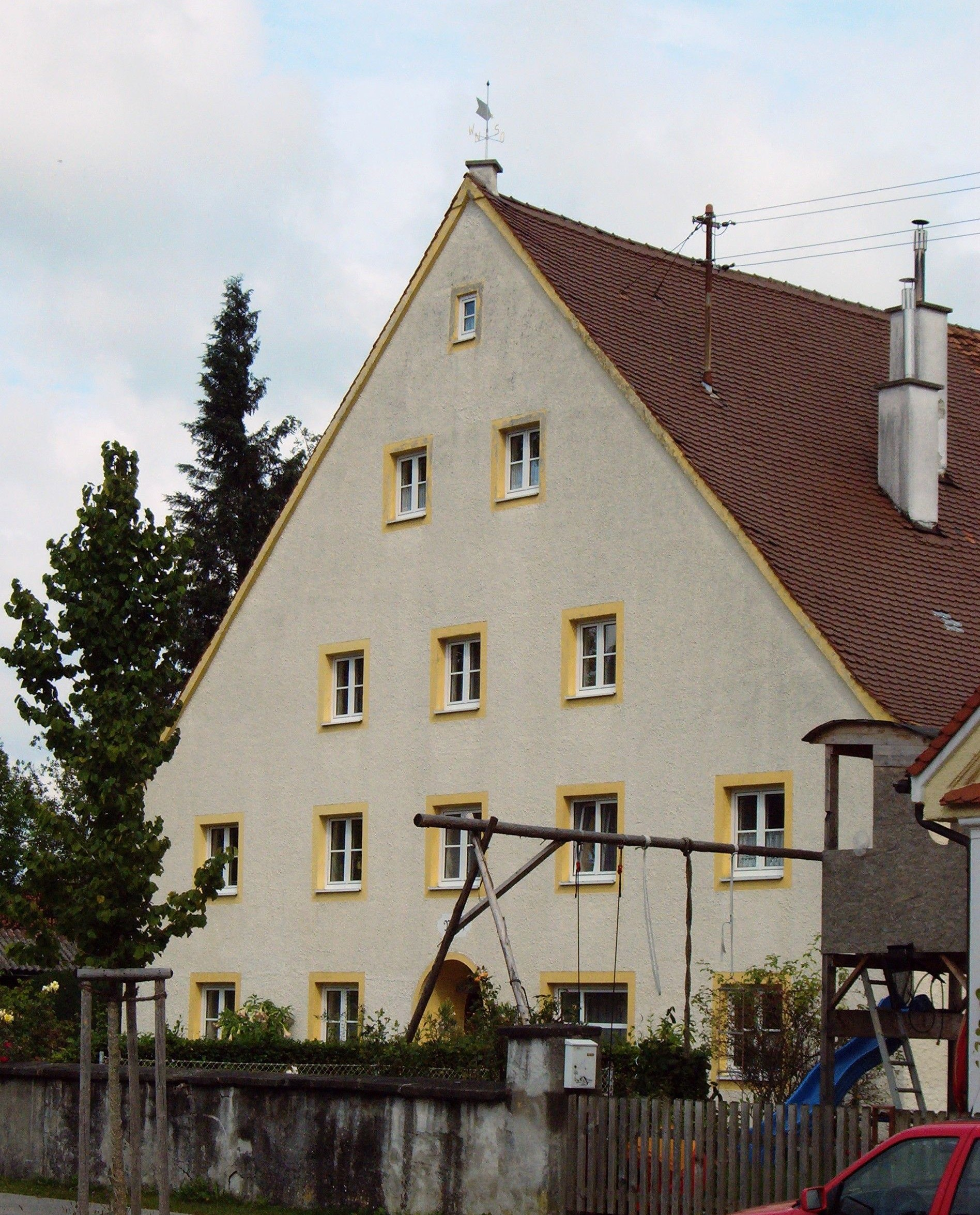 Leeder (Fuchstal), exterior view of the Amtshaus (former residence of the governor of the prince-bishop of Augsburg) from south-west.